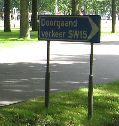 SW15 sign